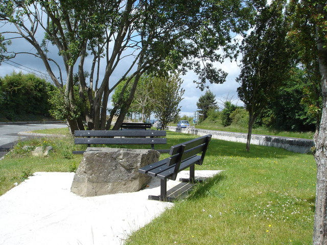 Picnic site at Killygordon Along the N15 outside the village of Killygordon.